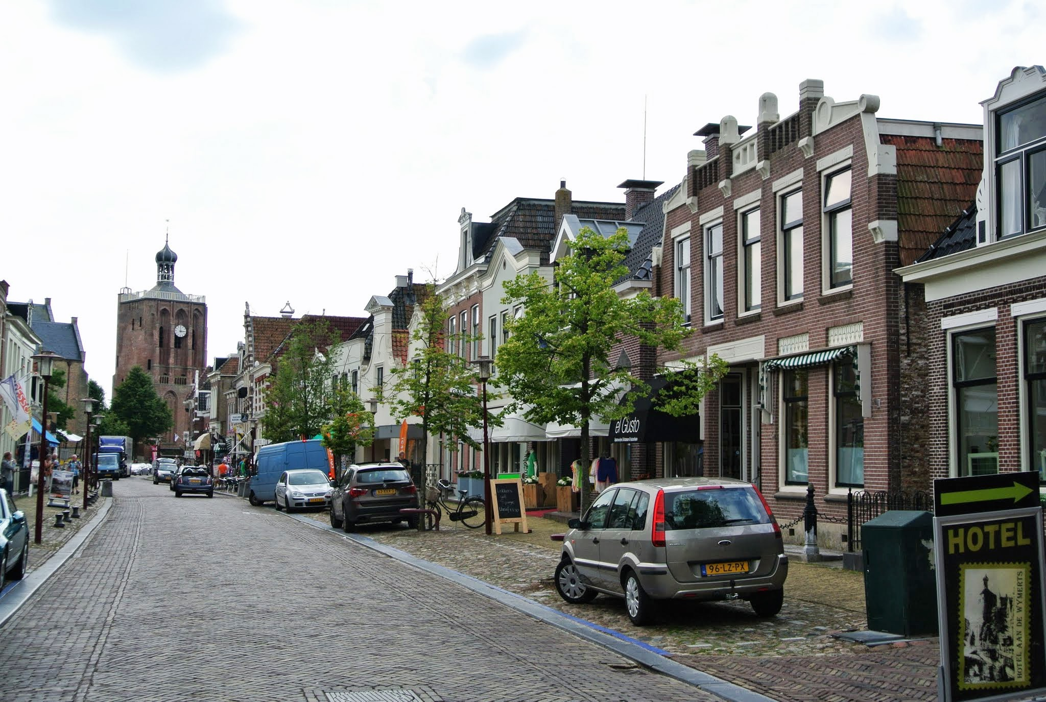 8711 Workum, Netherlands